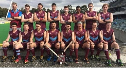 The University of Queensland, Champions 2014